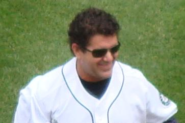 Edgar Martínez throws out the ceremonial first pitch at a Seattle Mariners game on 6 June 2009.